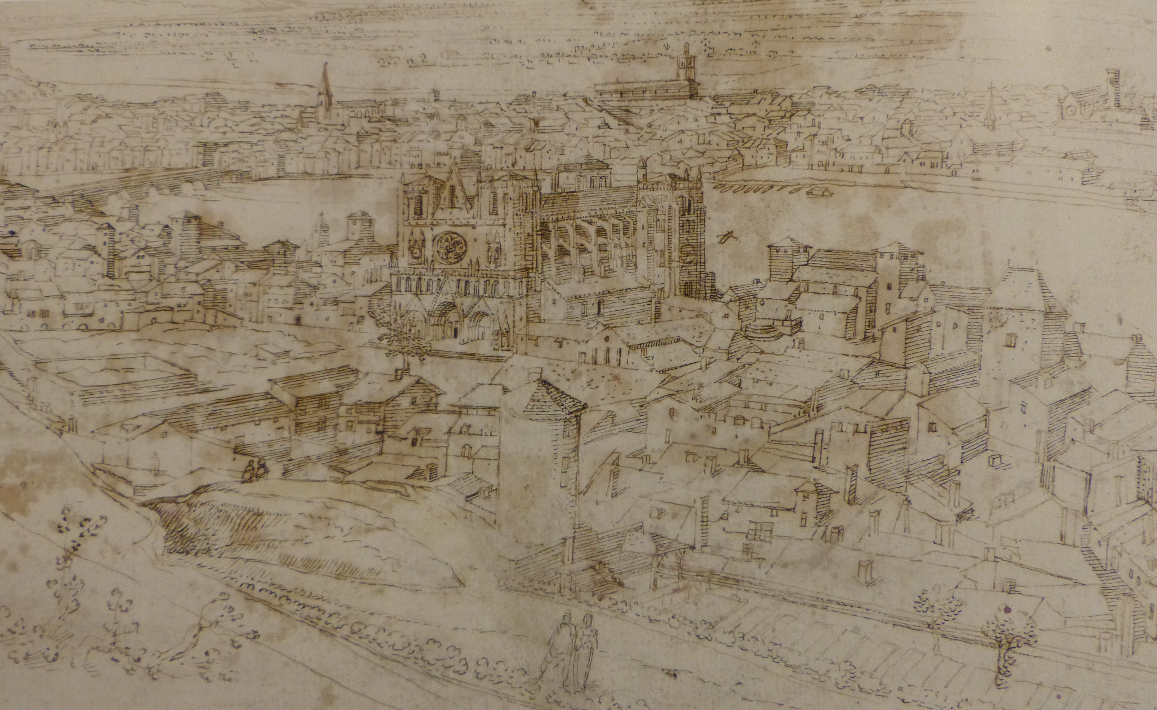 Representation of Lyon in the sixteenth century, view of the current rise of the Chemin-Neuf. In the center, Saint John's Cathedral